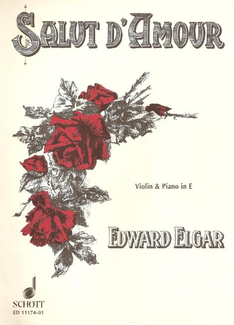 The cover page of a 1899 edition of Elgar's Salut d'Amour.